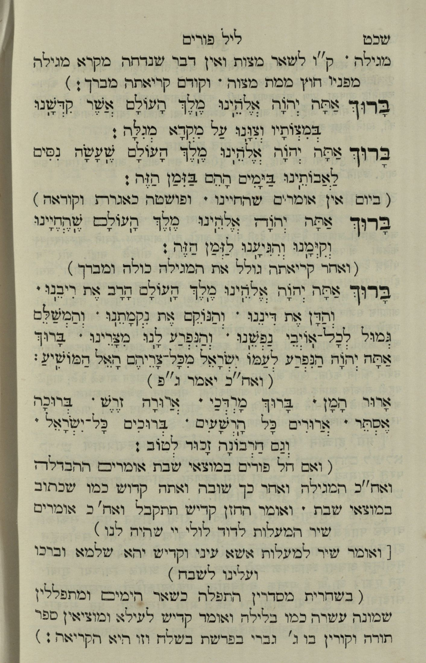 Jewish Prayer Book (Siddur) in Hebrew and Marathi , translated from Hebrew to Marathi in 1889 by Rajpurkar, Joseph Ezekiel